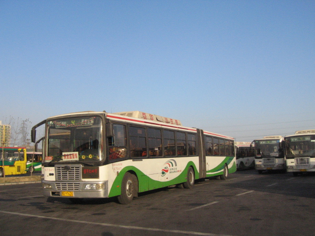 A CNG-powered Jinghua BK6180CNGA "Cruiser" at Maguanying depot.